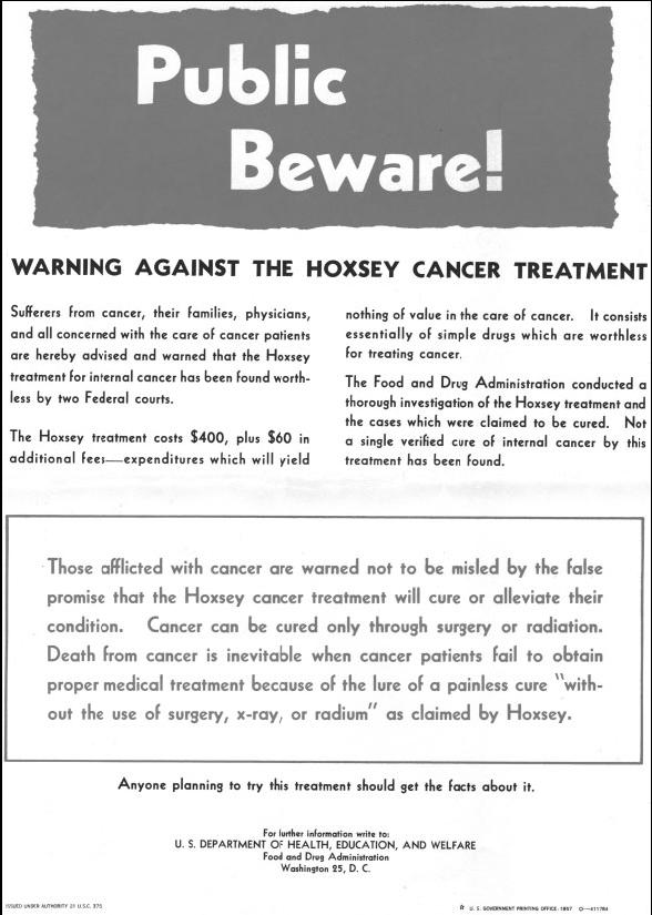 FDA poster warning against the use of the Hoxsey method. Product of the Food and Drug Administration (U.S. government agency).